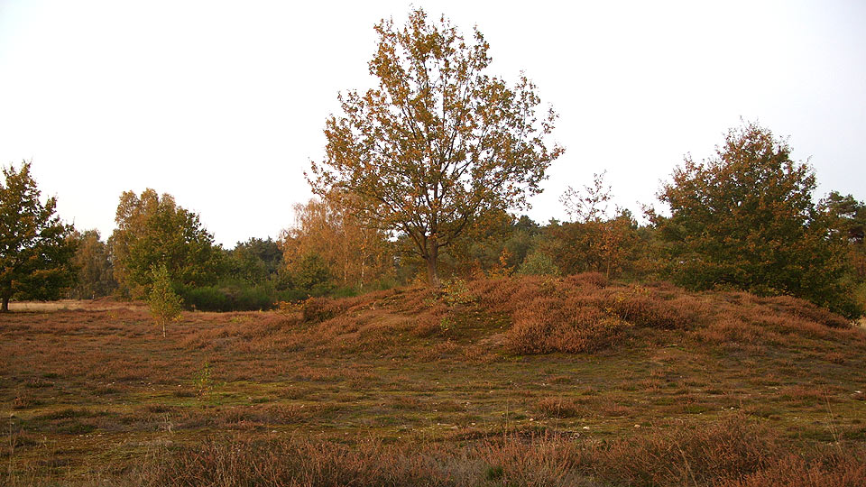 Gräberfeld in der Addenstorfer Heide